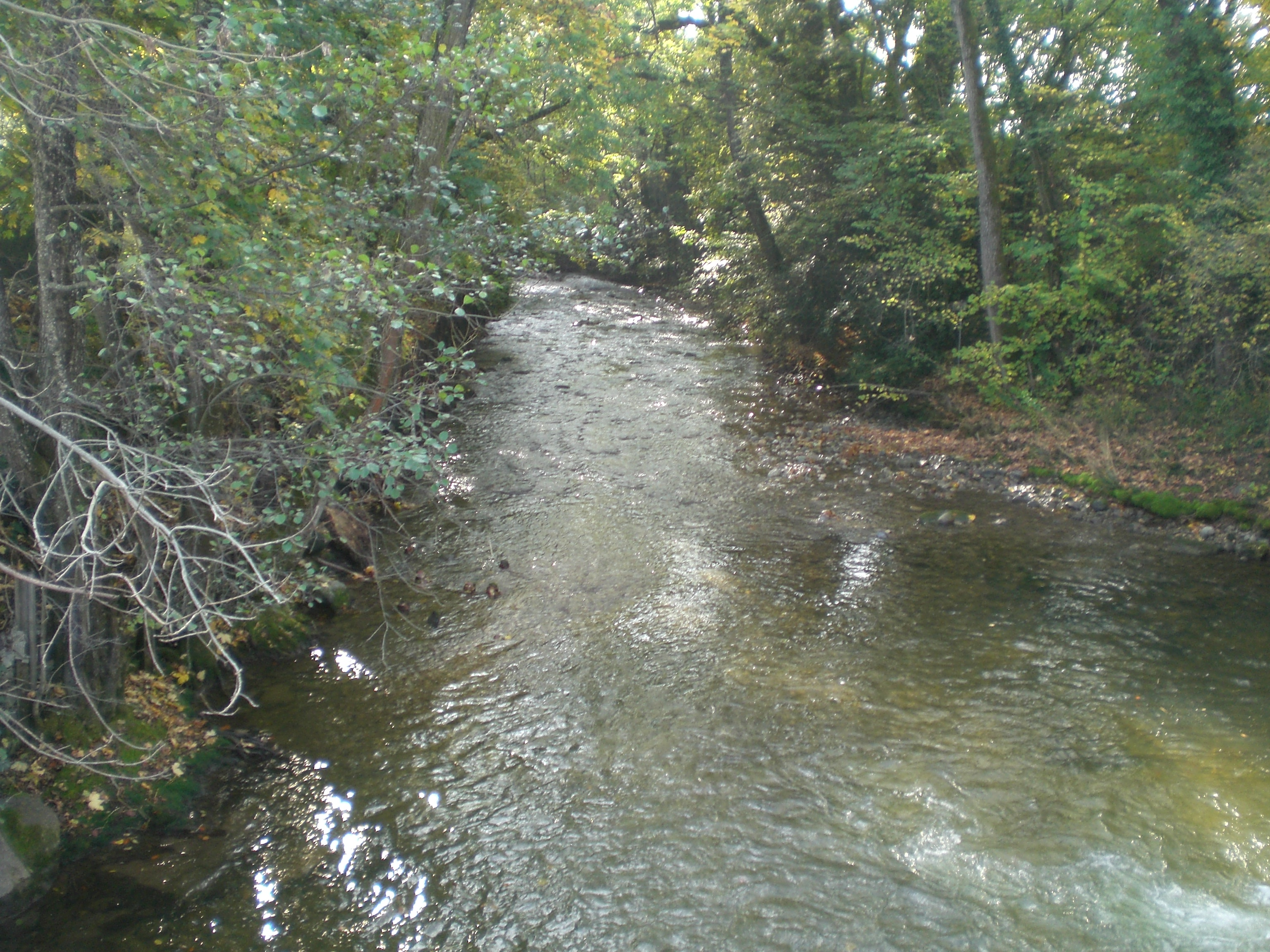 The Promonthouse river next to the dam in Gland